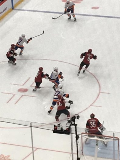 Coyotes vs. Islanders NHL hockey game; New York Islanders at Arizona Coyotes; December 18, 2018